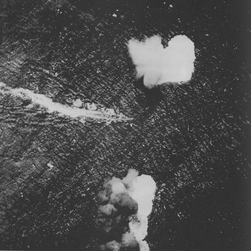 The Japanese destroyer Akizuki under attack by U.S. Army Air Force Boeing B-17E Flying Fortress bombers on 29 September 1942 off Empress Augusta Bay, Bougainville. The destroyer escaped unharmed.